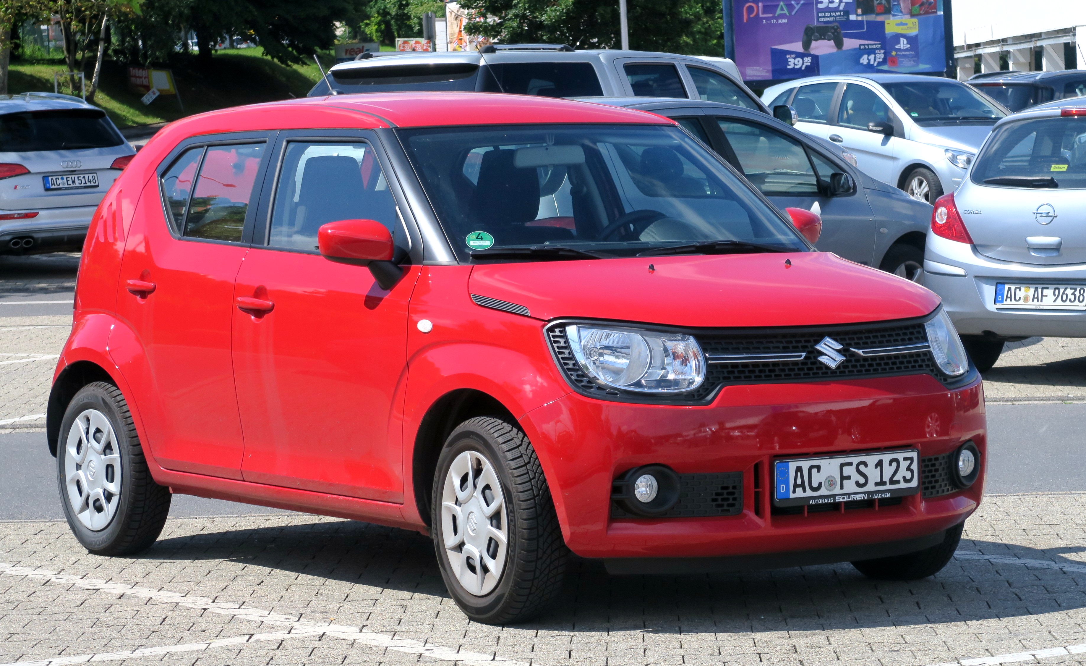 Suzuki Ignis von und bei REAL in Aachen